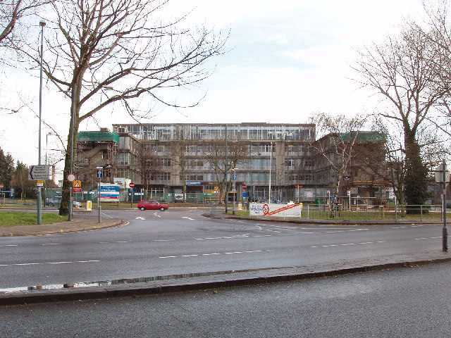 Northwick Park Hospital, Harrow. This is a large public hospital of the North West London Hospitals NHS Trust.